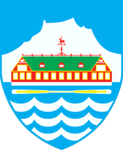 Coat of arms of Nuuk, Greenland